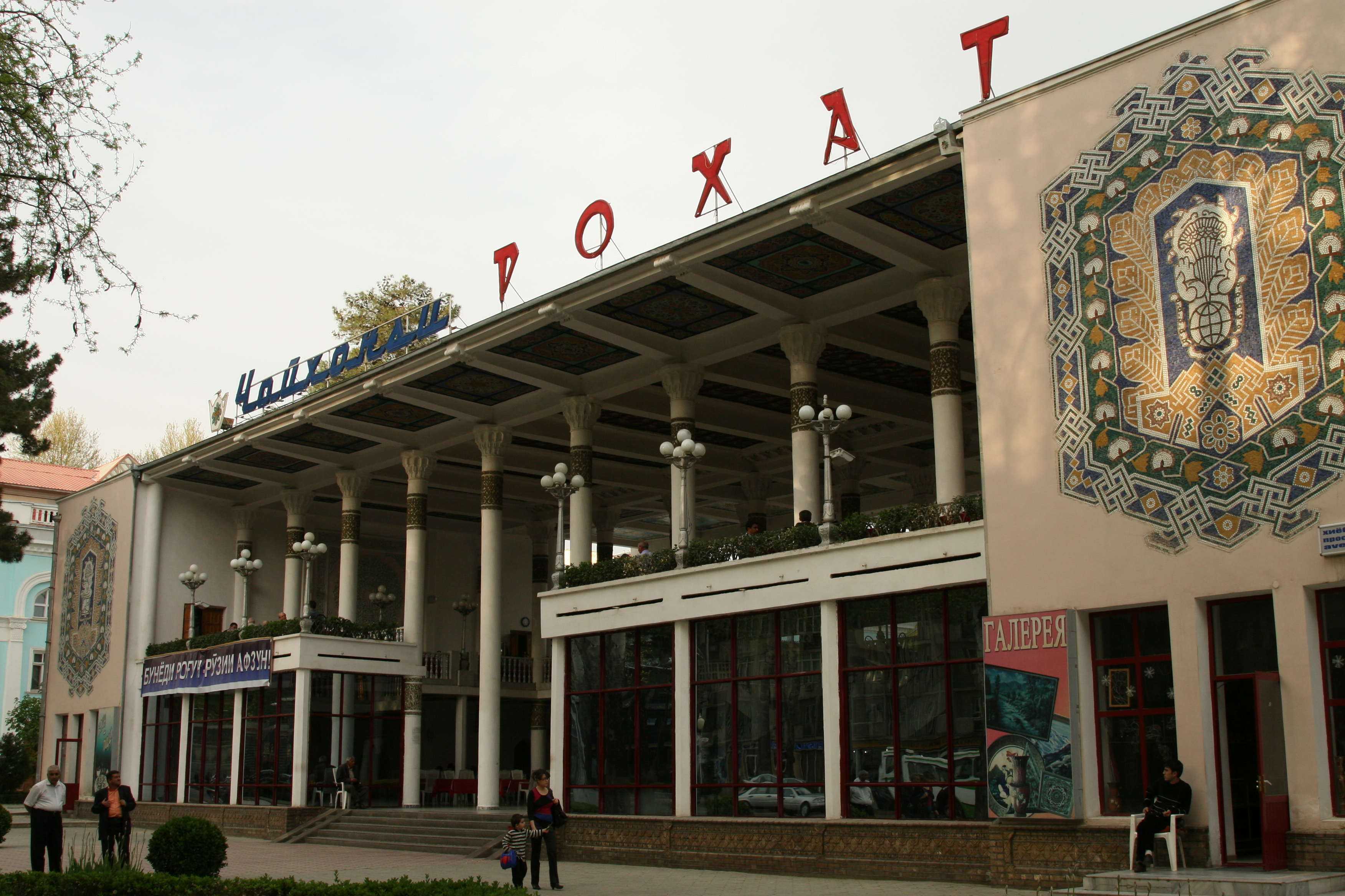 Chaykhona Rokhat, Dushanbe, Tajikistan, 2010-04-09